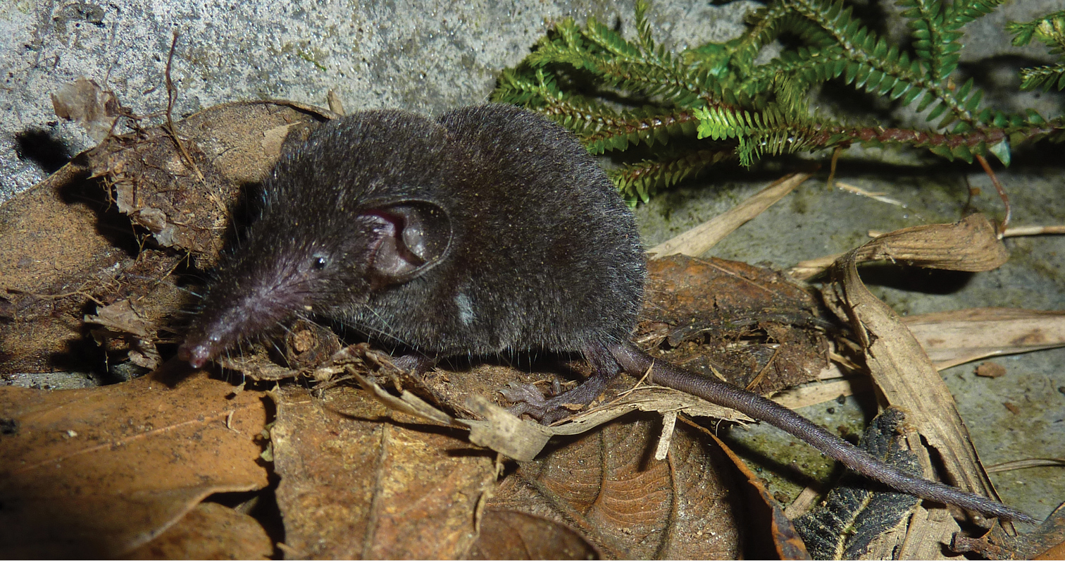 Photograph of adult male Crocidura sapaensis (ZIN 99779).